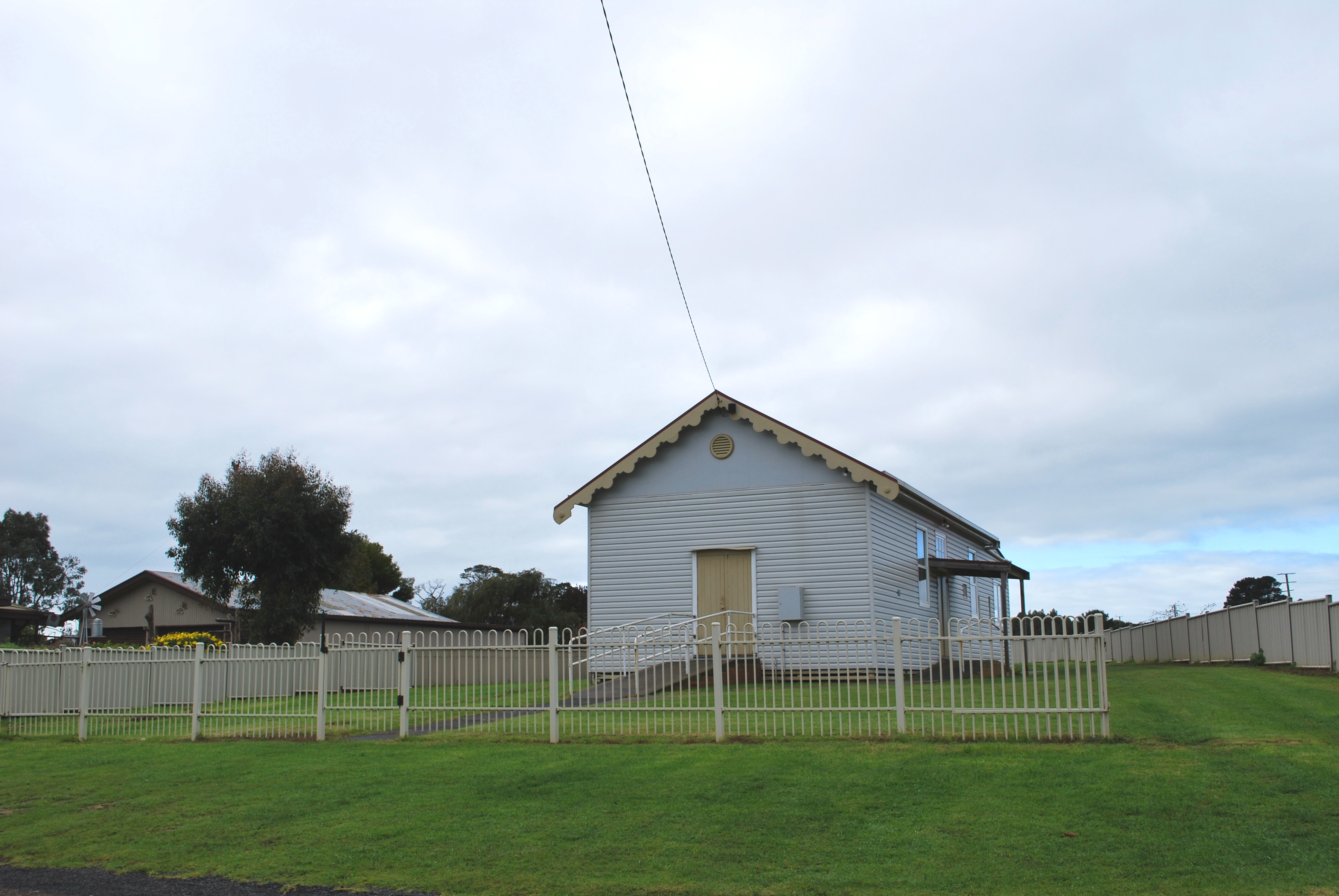 Public hall at Cudgee, Victoria